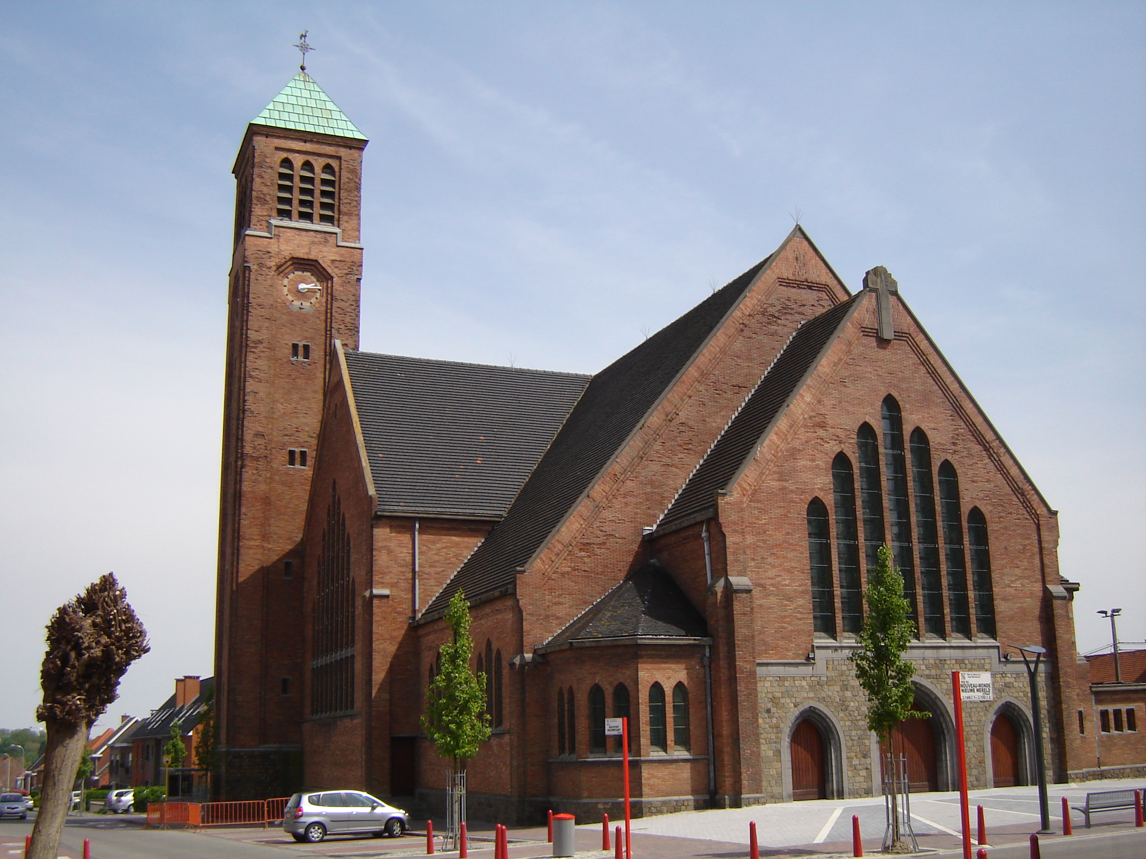 Church of the Good Shepherd, in the quarter Nouveau Monde, Mouscron. Mouscron, Hainaut, Belgium